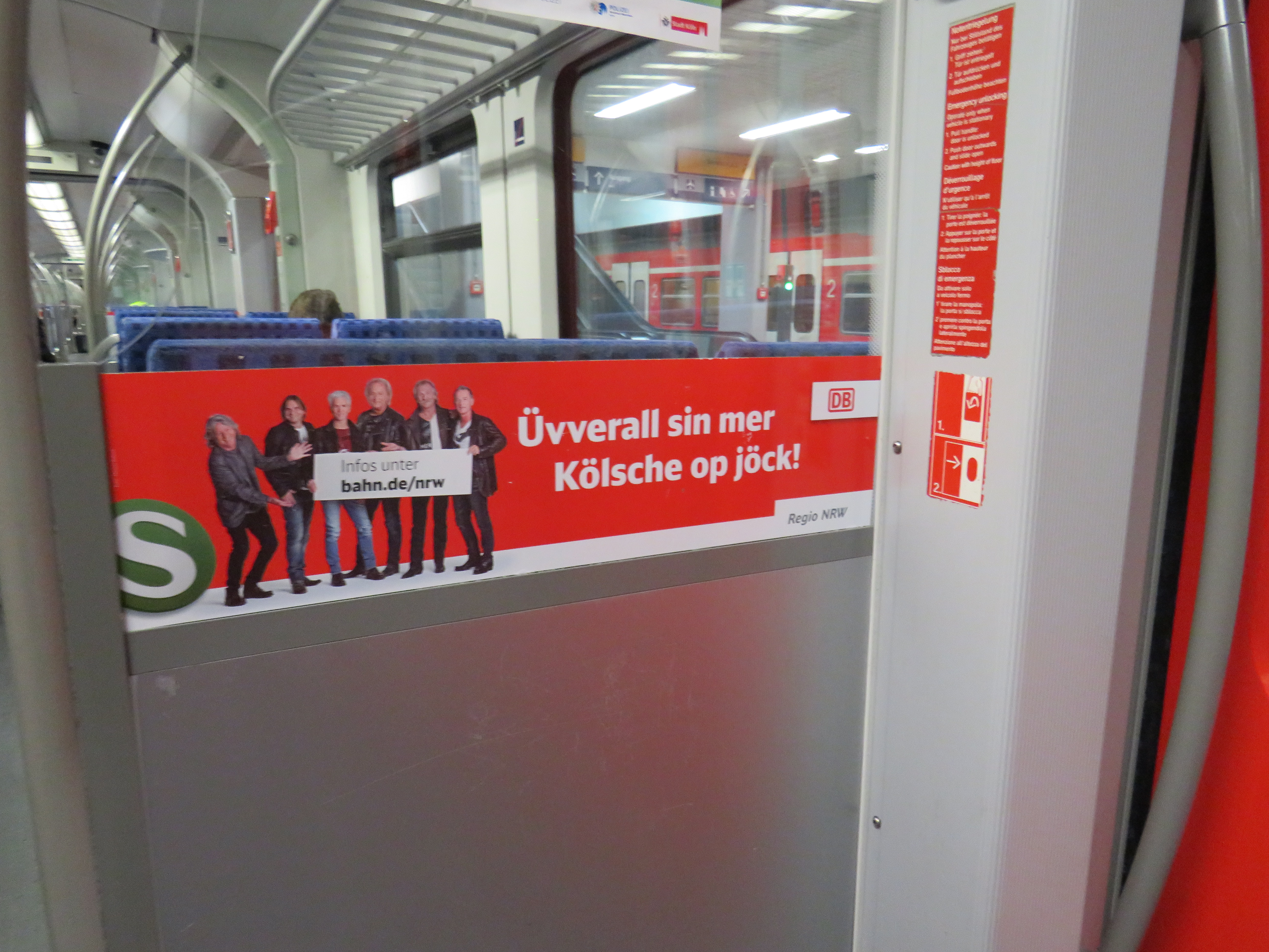 Colognian dialect in the S-Bahn Köln trains